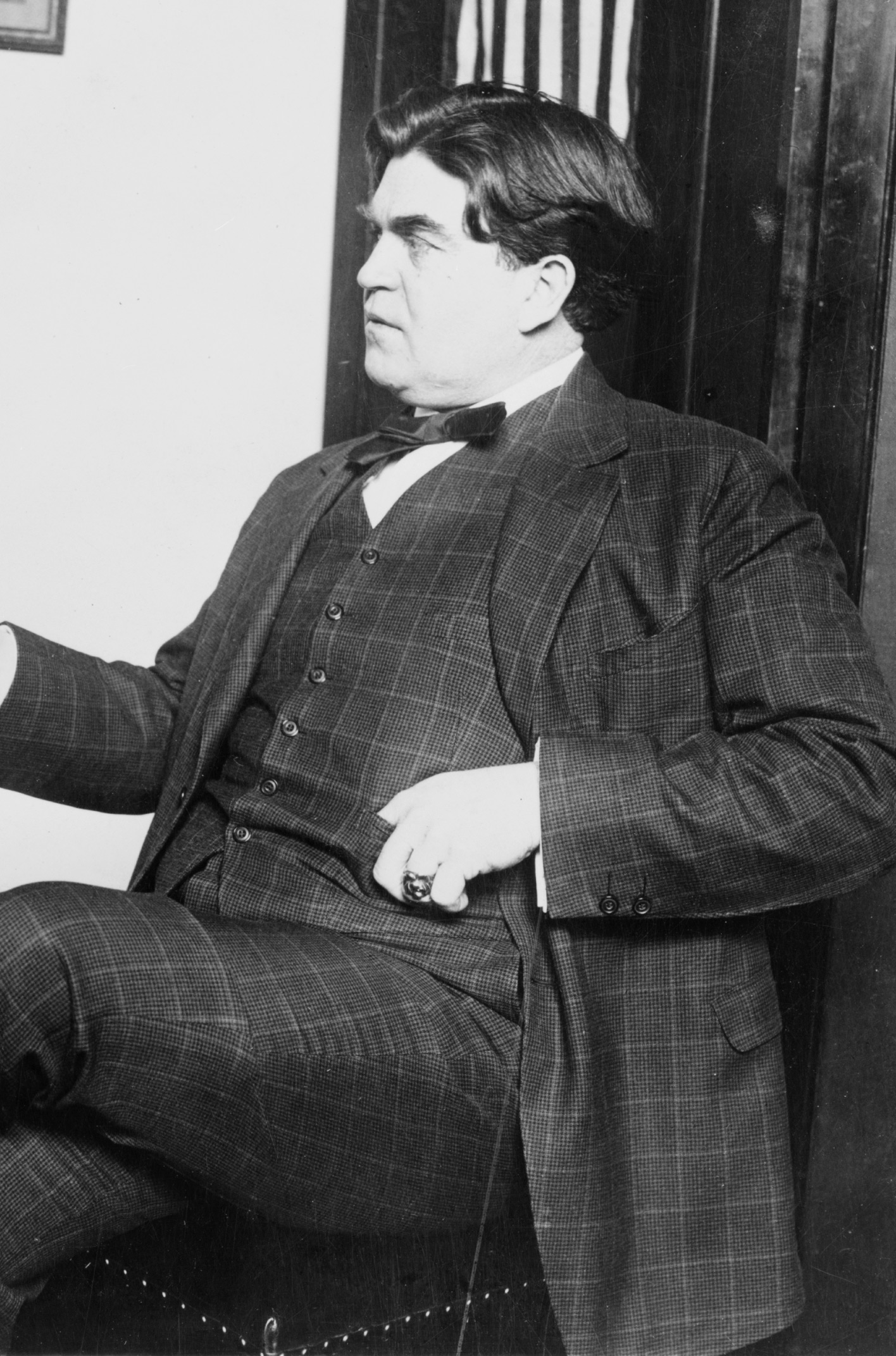 President John L. Lewis, of the United Mine Workers of America at the Capitol, talking over the coal situation.